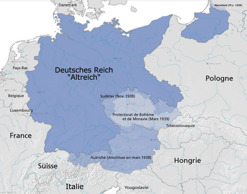 Map Germany before 1939 ("Deutsches Reich")